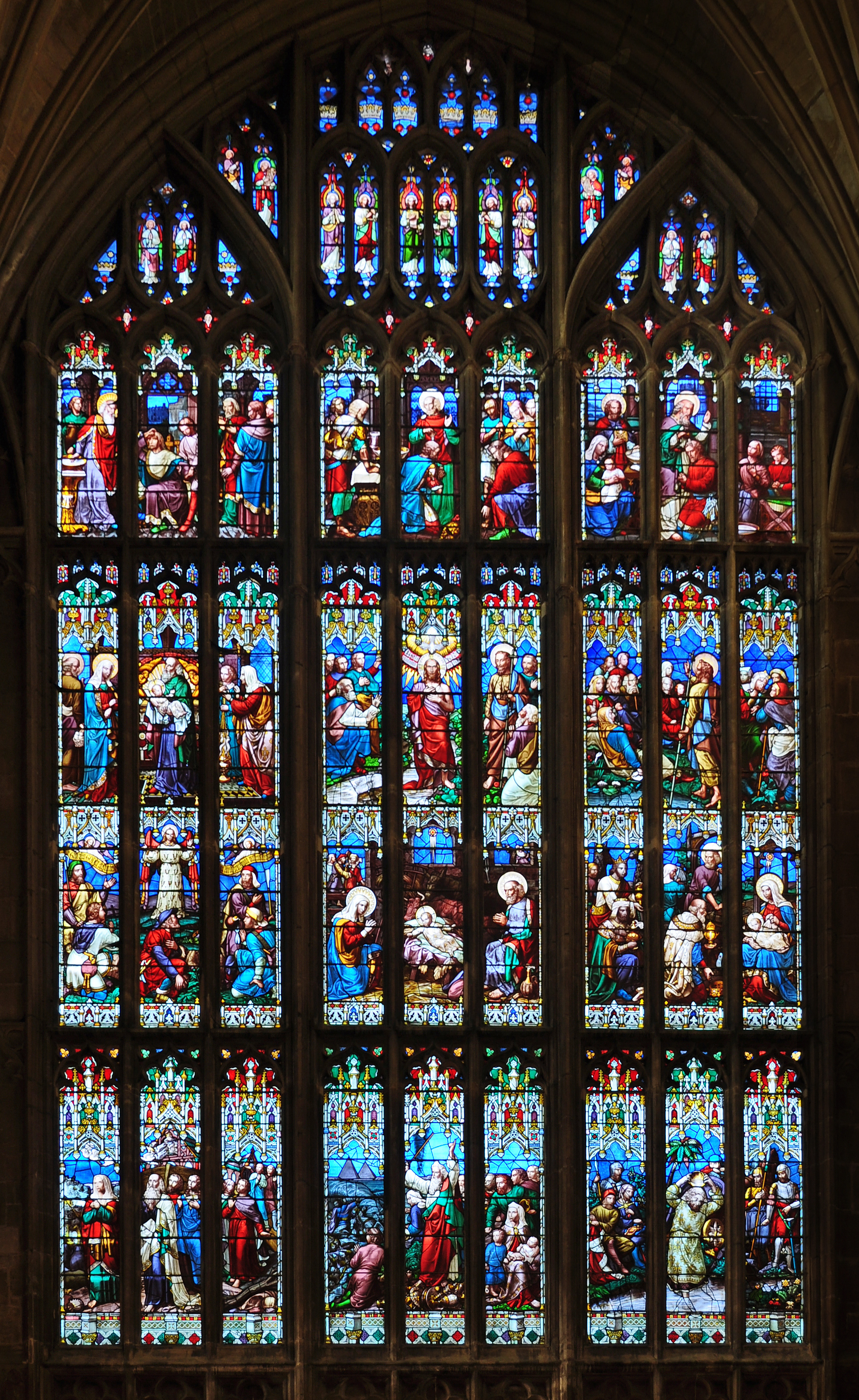 The large stained glass window at the west end of Gloucester Cathedral.